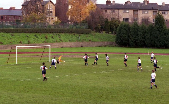 Football pitch inside the Roger Bannister running track, Oxford, England